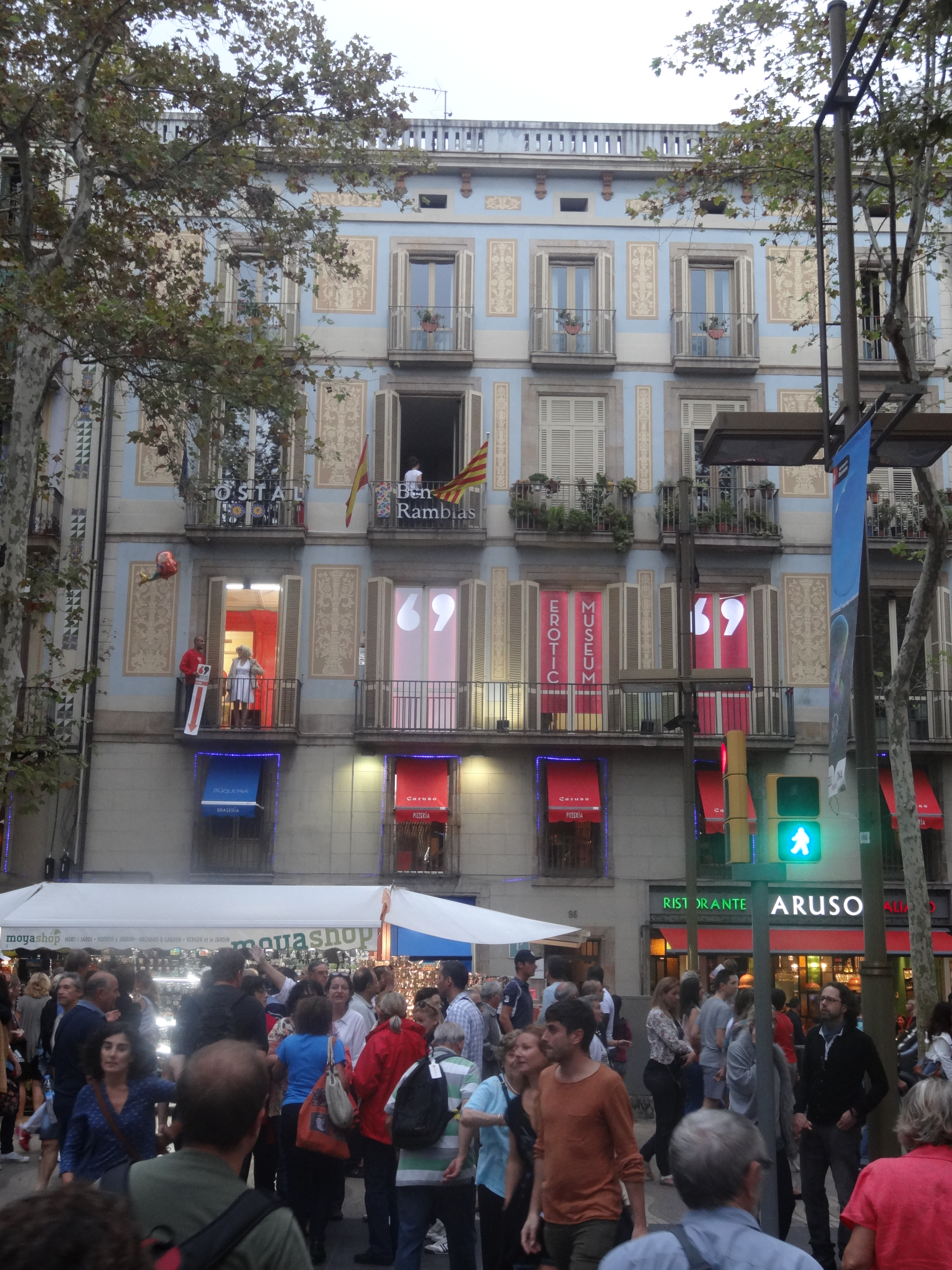 Erotic Museum of Barcelona